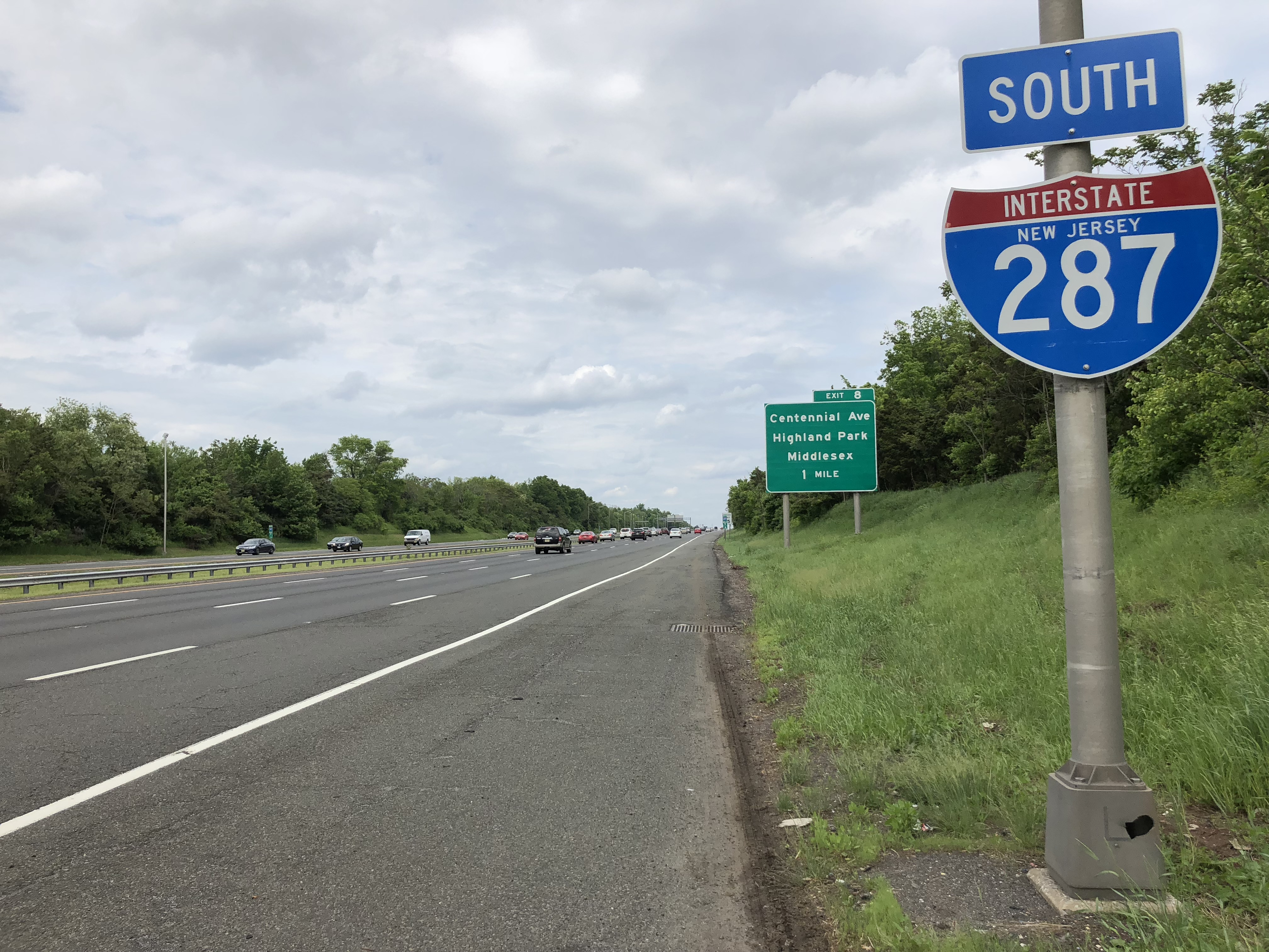 View south along Interstate 287 (Middlesex Freeway) just south of Exit 9 in Piscataway Township, Middlesex County, New Jersey